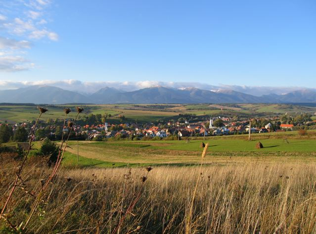 This is a view looking north with the town of Hybe in the foreground and Western Tatras.